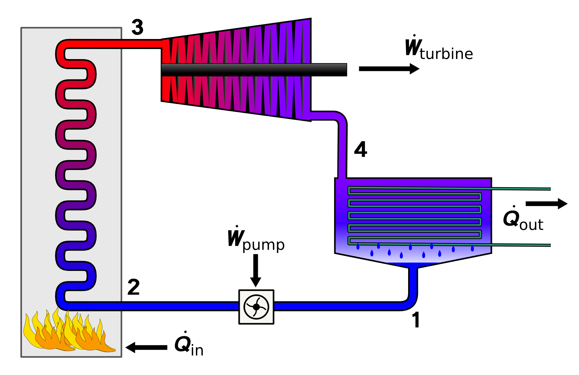 Diagram showing the basic layout of a Rankine cycle; Fluid is pumped to high pressure going from state 1 to 2. Heat is added in the boiler by the burning of fuel (although heat can be added by any method) boiling the fluid to state 3. The vapour expands through the turbine dropping significantly in pressure and temperature to state 4. Finally the vapour is condensed back to a liquid and fed back in the pump.